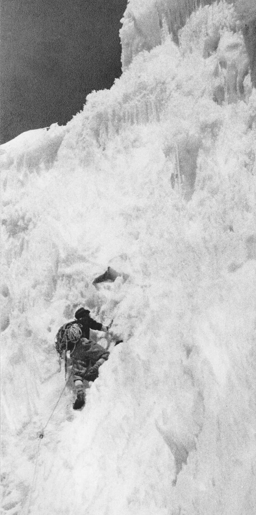 Passage called "la torre di ghiaccio" (ice tower) on Saraghrar Peak (Hindu Kush, Pakistan)